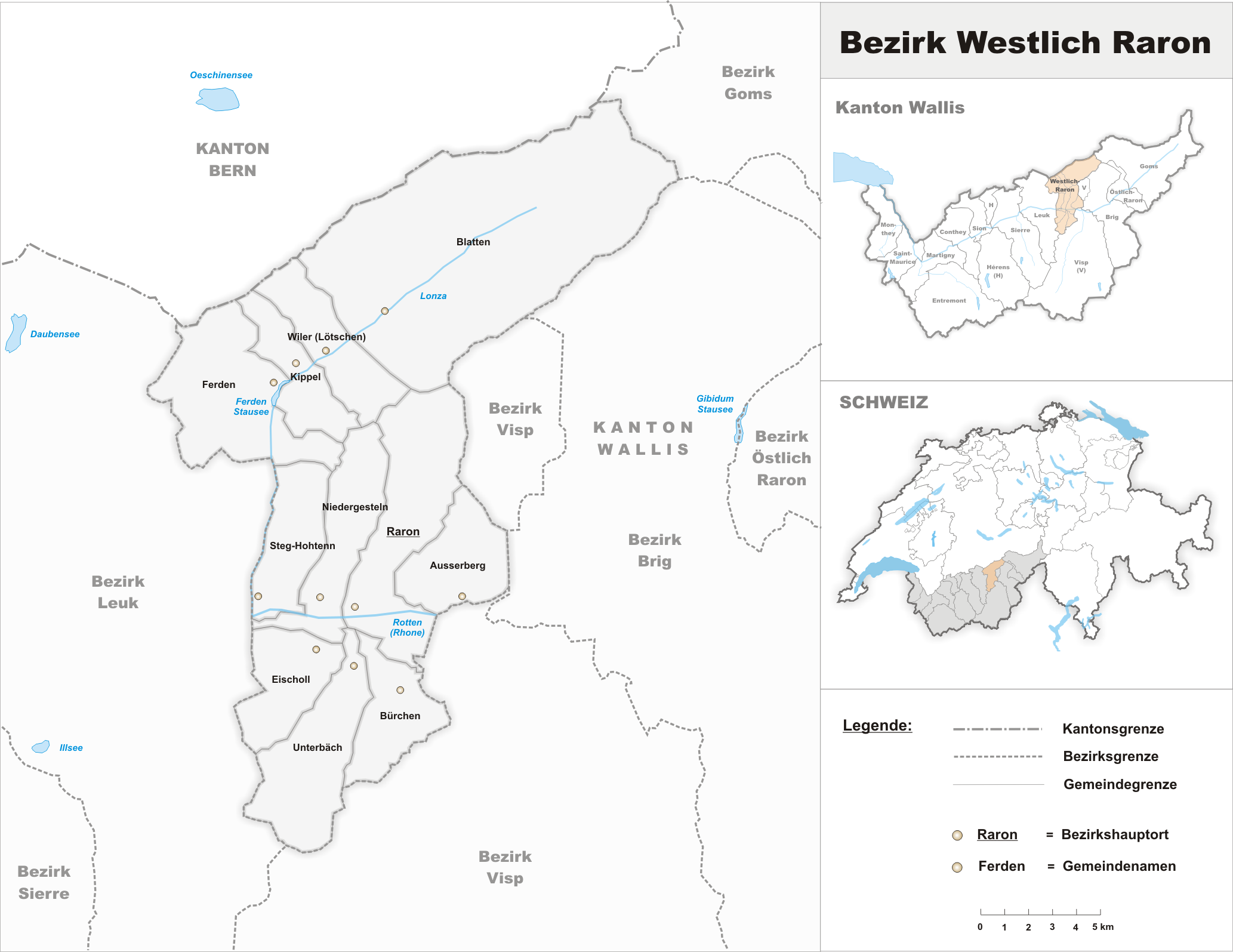 Municipalities in the district of Westlich Raron to 2009